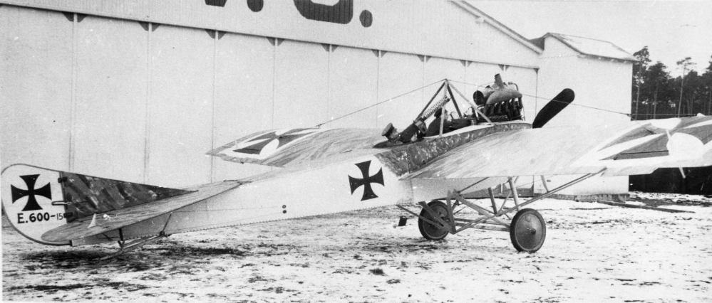 LVG E.I prototype serial E.600/15. Two-seat monoplane - first aircraft with forward firing and ring mounted machine guns (1915).